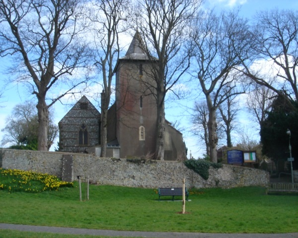 All Saints Church, Church Hill, Patcham, City of Brighton and Hove, England. Seen from the west on 1 March 2008. Listed at Grade II* by English Heritage (IoE Code 480061)